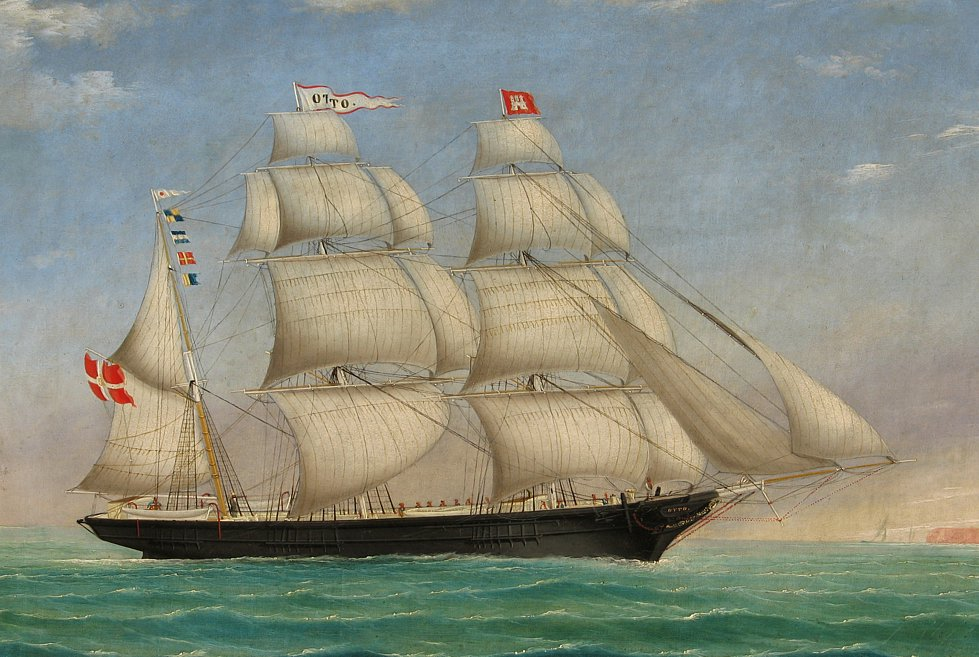 Ship Portrait of the Danish Bark “Otto geführt von Capt. J. Ahlmann” under sail off Helgoland